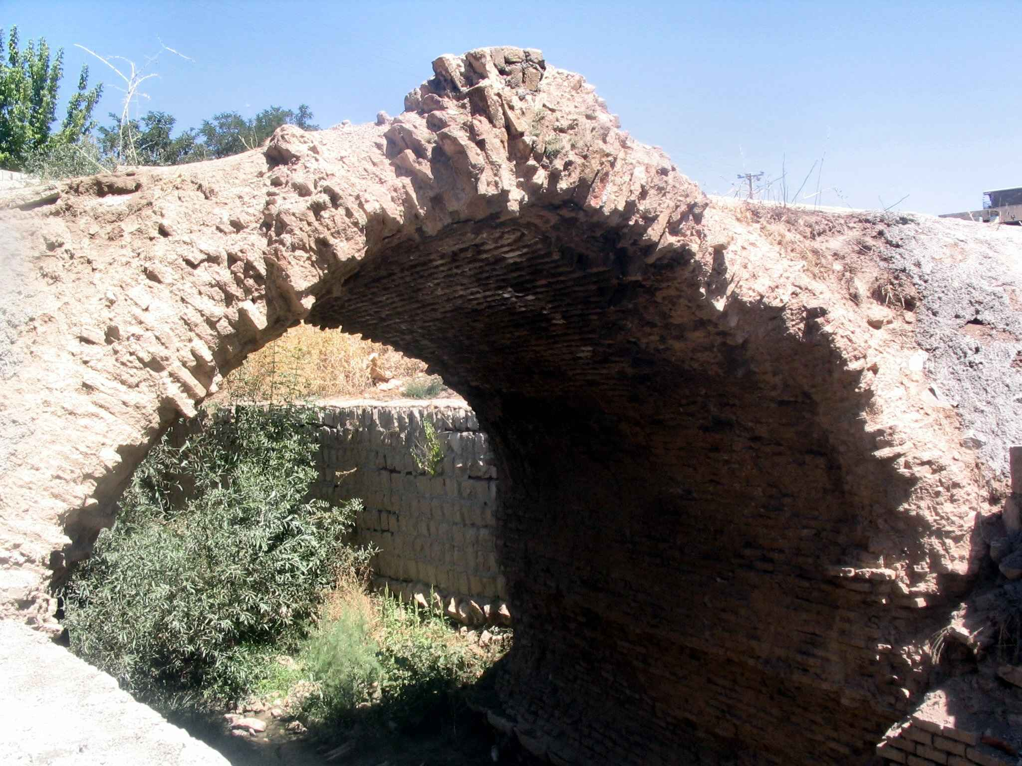 Ruins of an old bridge in Borujerd city